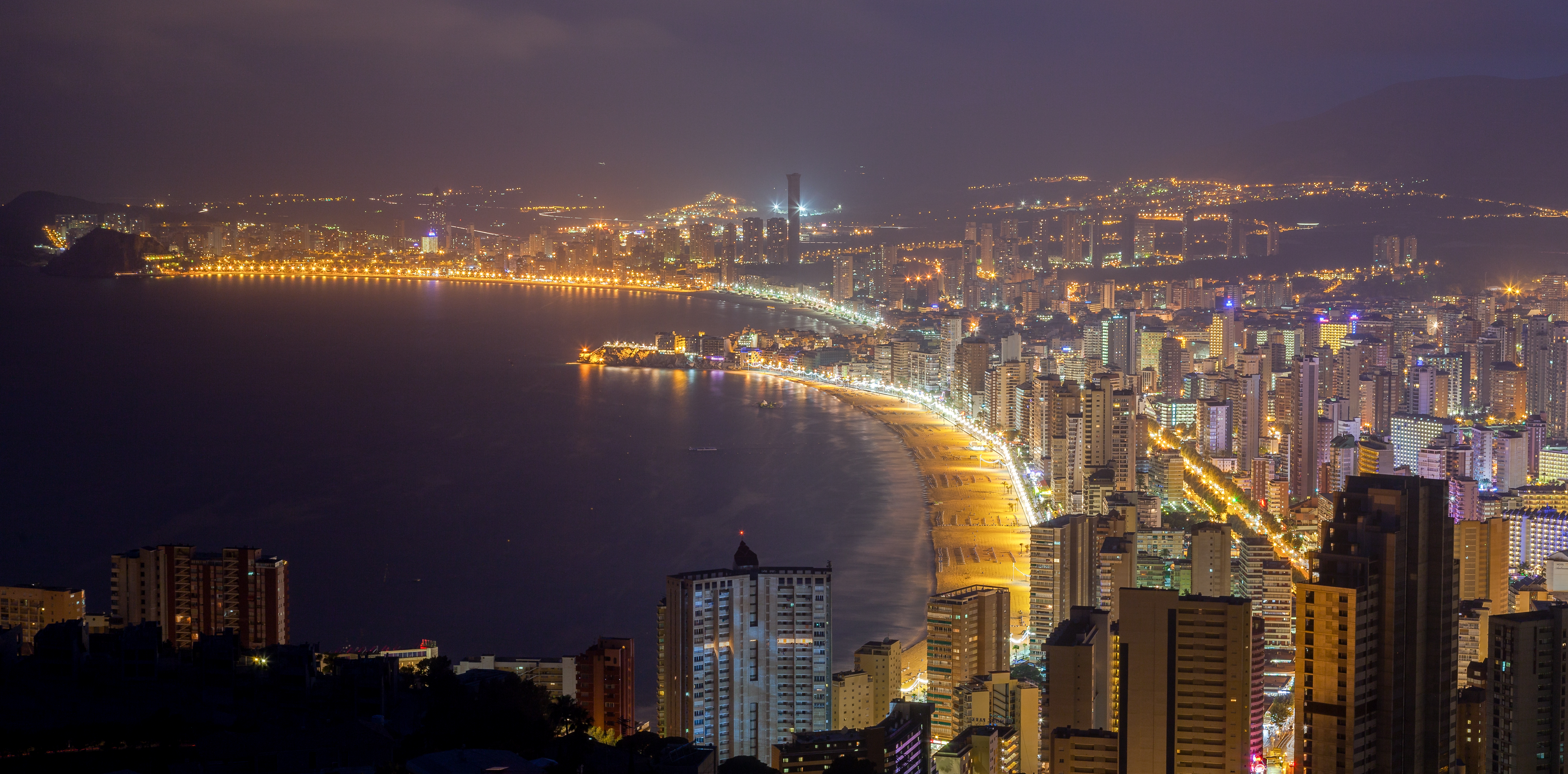 View of Benidorm, Spain